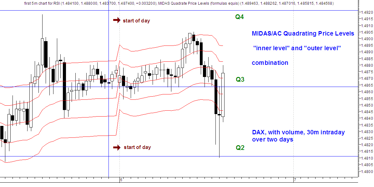 quadrating